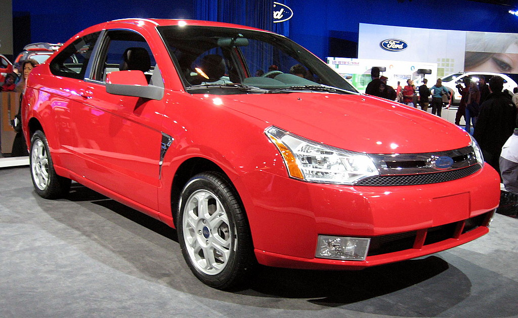 2008 Ford Focus coupe photographed at the Washington Auto Show.